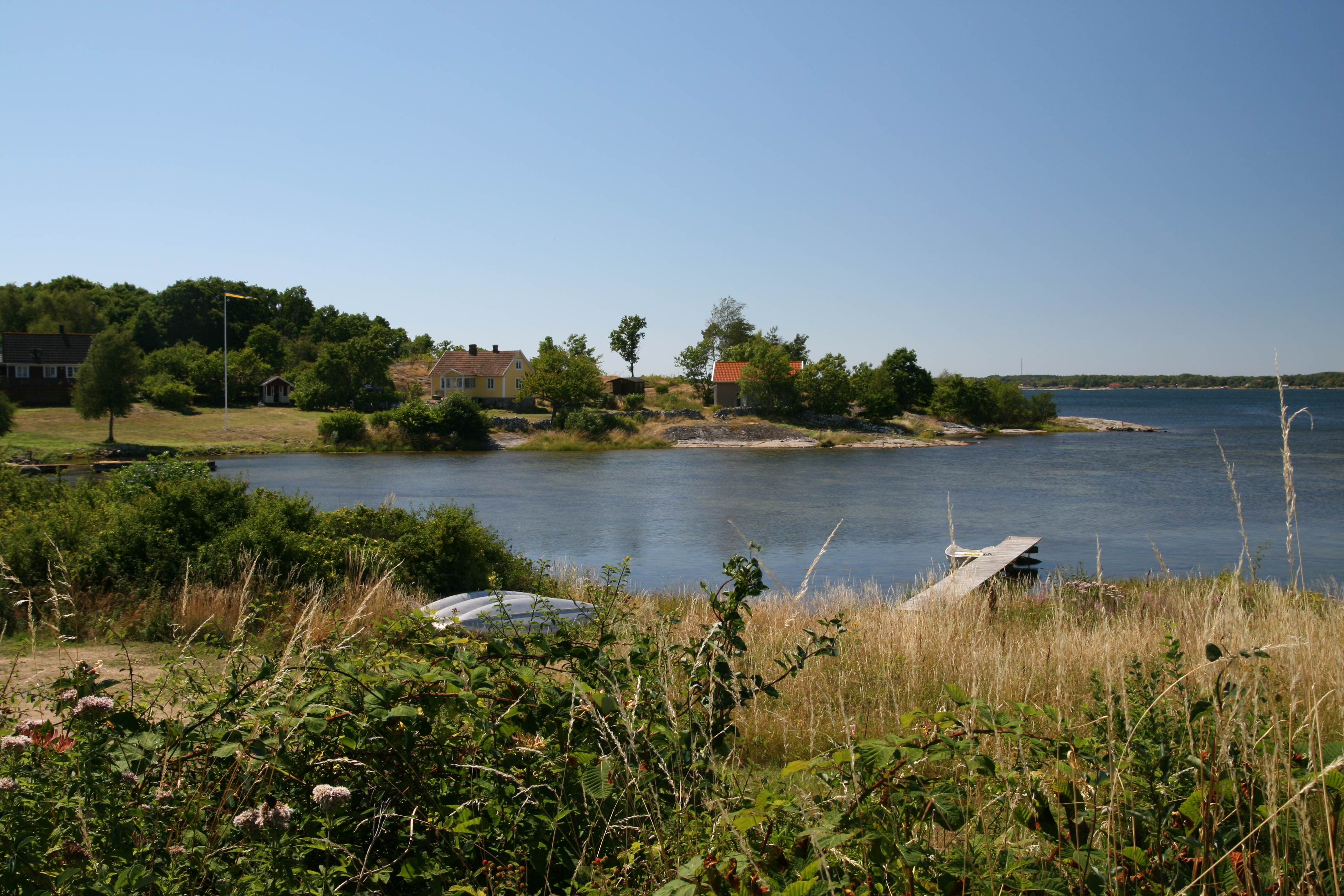 The bay of Gäraviken on the west coast of the island of Aspö in the archipelago of Karlskrona, Sweden.